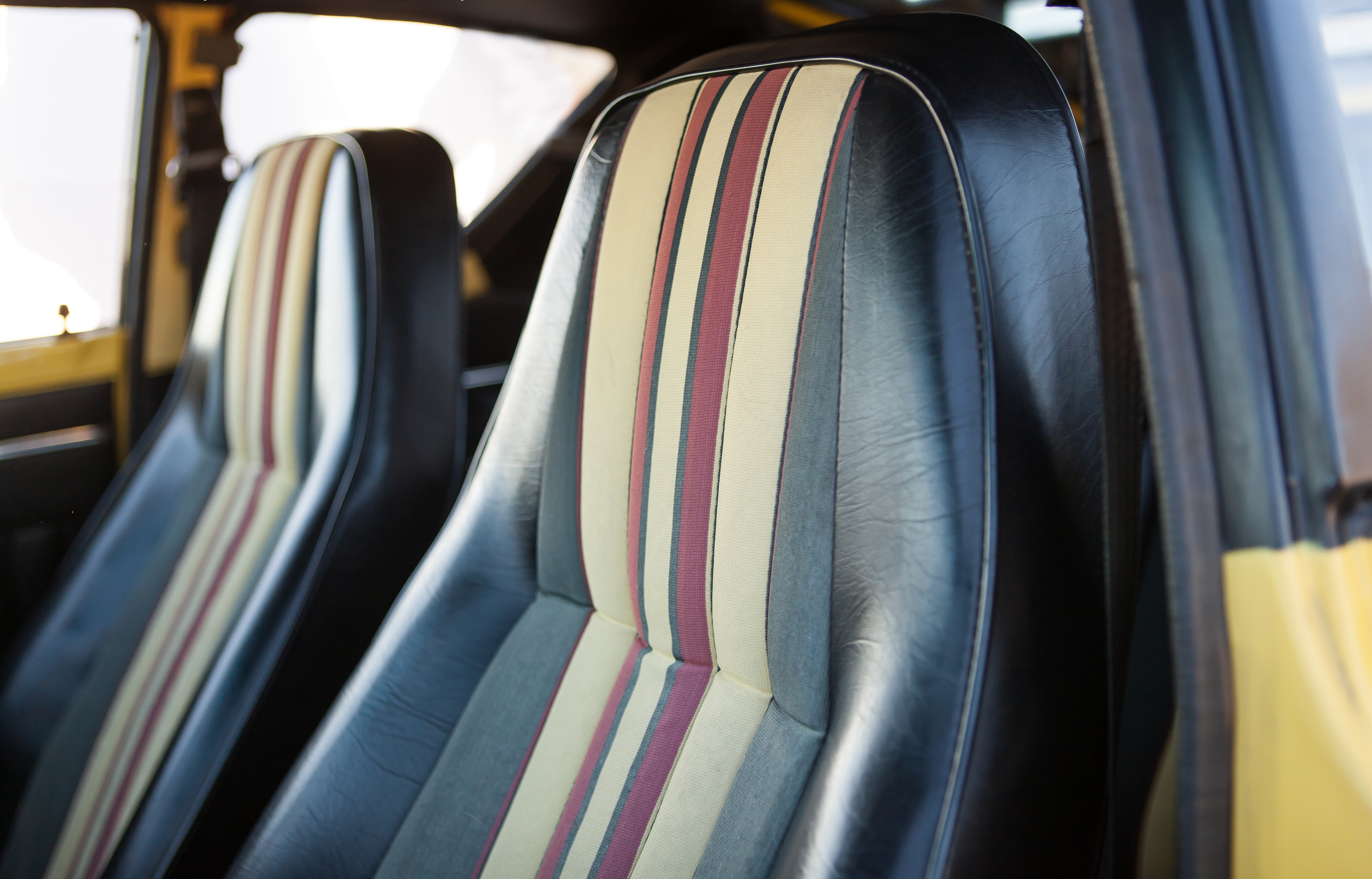 Canary yellow Nissan-Datsun (B210) 160Z Sports Coupe, South African. High back seats with Mexican Stripe cloth seats. Courtesy of Lee-Ann Vigus - &